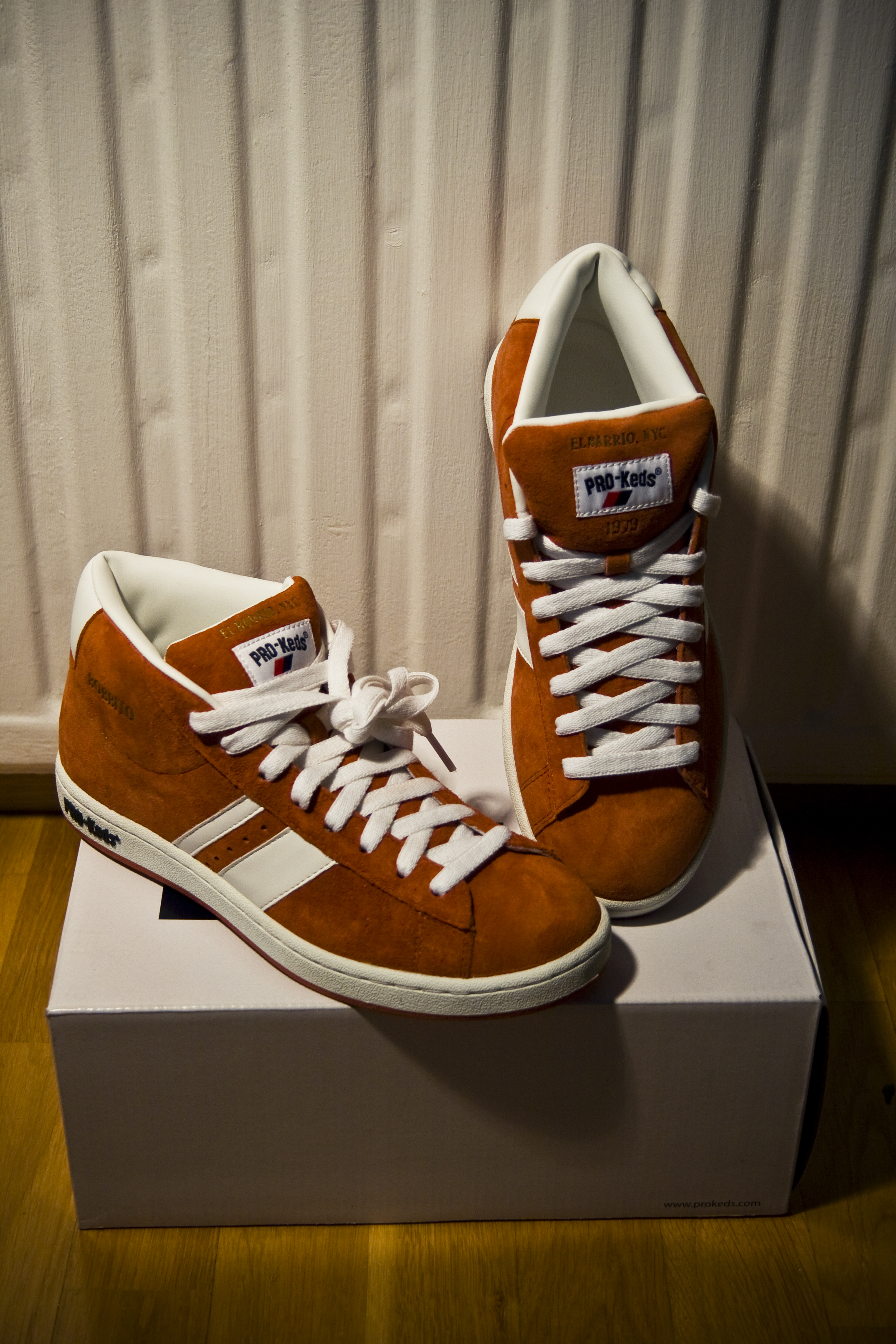 Pro-Keds Royal Flash Mid SPNSH TIL™ #3